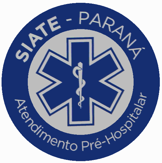 Insignia of firefighters - SIATE (Rescue) - Brazil.